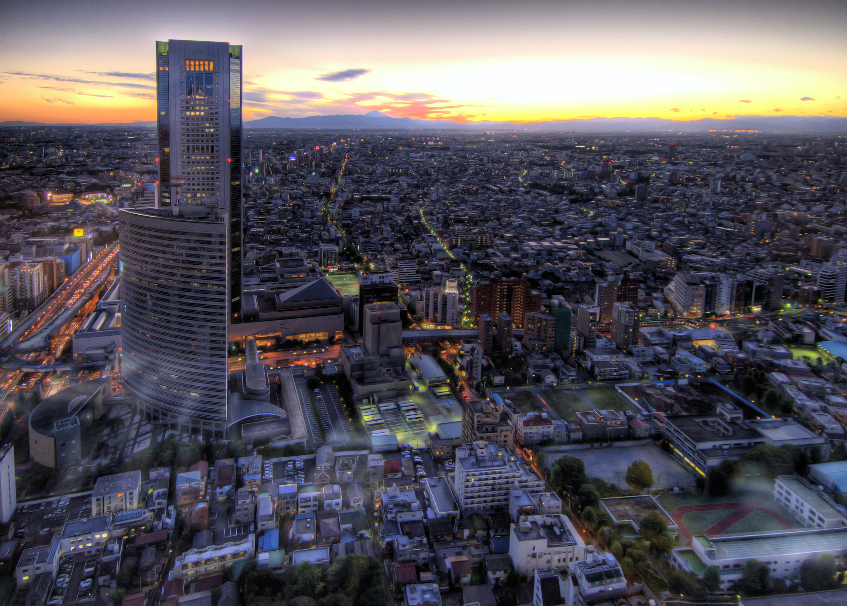 Sun setting over Tokyo. Mount Fuji (in the background) was visible for the first time in three months. October 2006. This can be merged with Image:Sunset in Shinjuku.jpg after fp-nomination is done